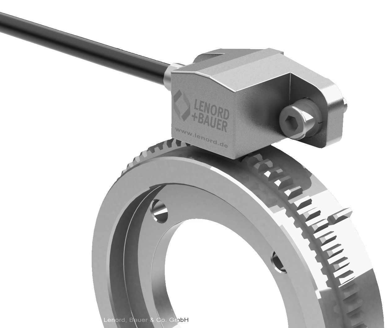 Incremental rotary encoder Type „Minicoder“. The single tooth on the second track is the reference pulse.